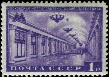 Stamp of the Soviet Union, Paveletskaya (Moscow Metro station), 1950, CPA 1541.